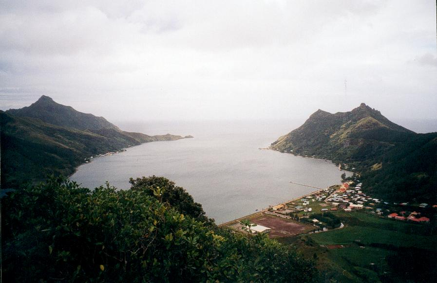 Ahurei Bay, Rapa, Austral Islands, French Polynesia